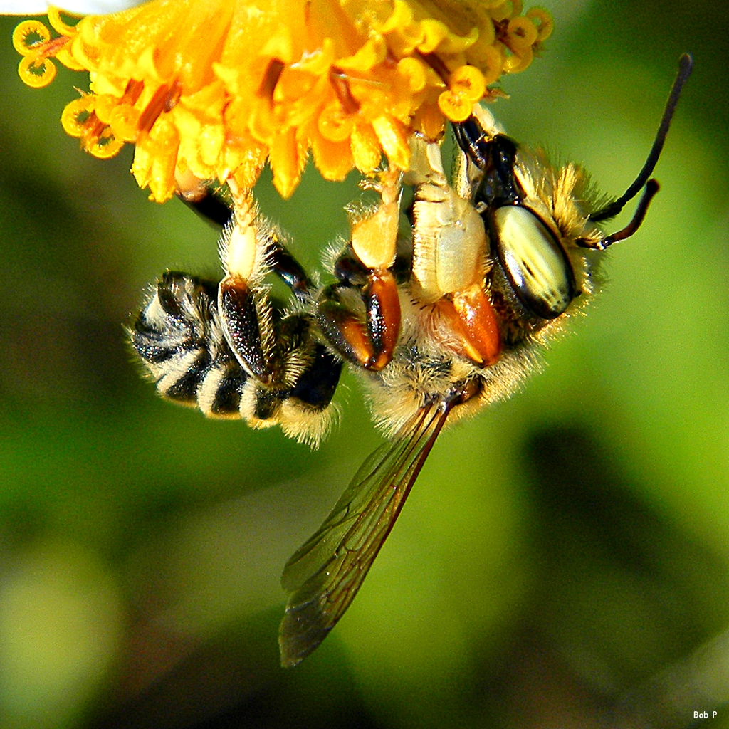 I found this interesting and friendly little leafcutter bee sipping nectar from Spanish needle blossoms along the Intracoastal Waterway in North Palm Beach, Florida. This one is a male. (ID courtesy of )